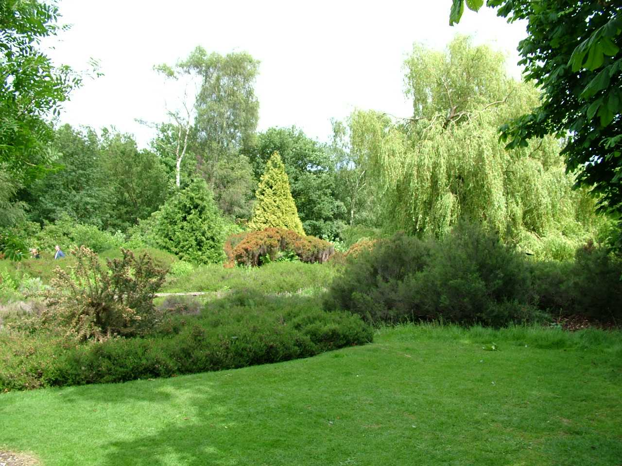 Isabella Plantations in Richmond Park, London